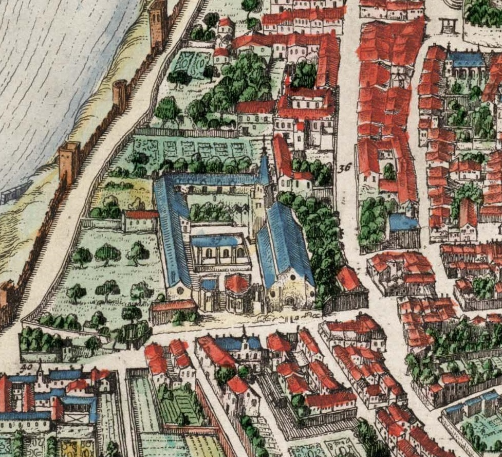 Dominican convent of Avignon, 1663